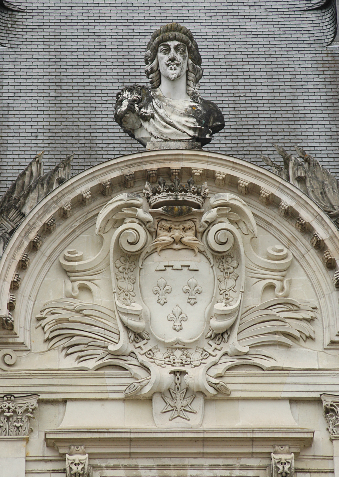 Château de Blois, gable of the Gaston d'Orléans wing